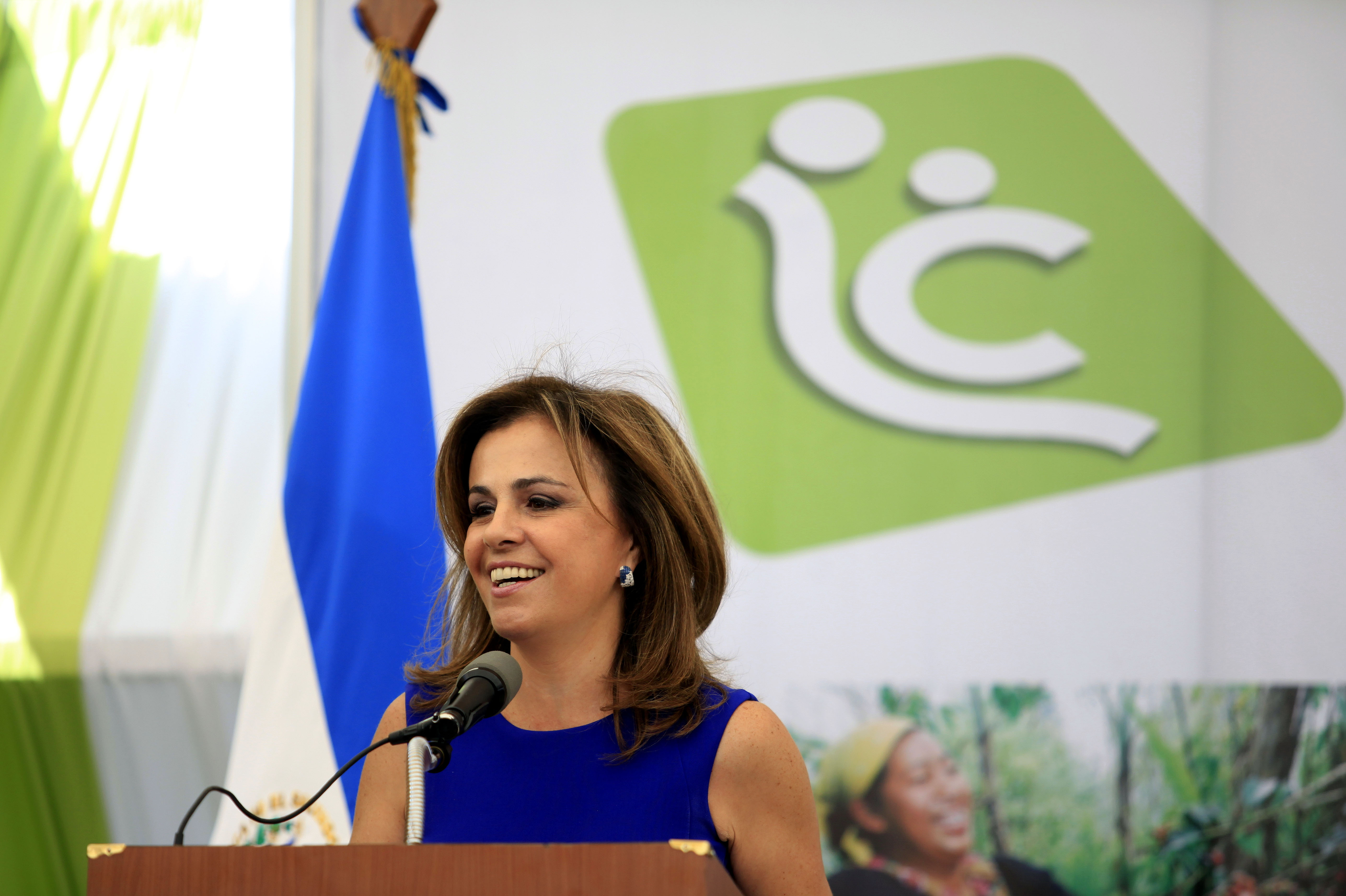 Vanda Pignato,Secretaria de Inclusión Social, durante su discurso en la graduacion de Mujeres provenientes de las sedes de Ciudad Mujer Colón y San Martin.